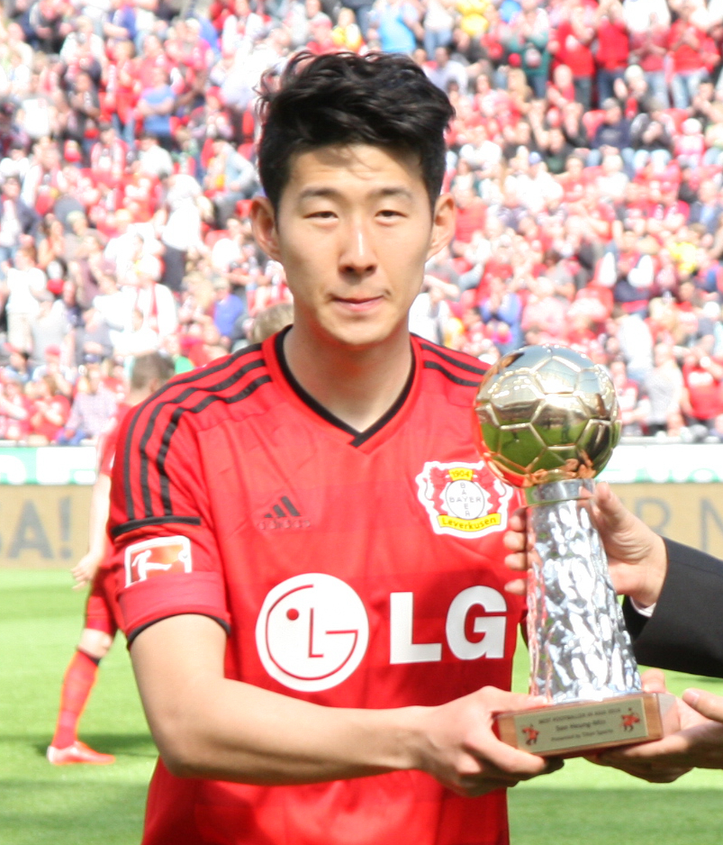 Titan Sports conferred the trophy to Son Heung-min.